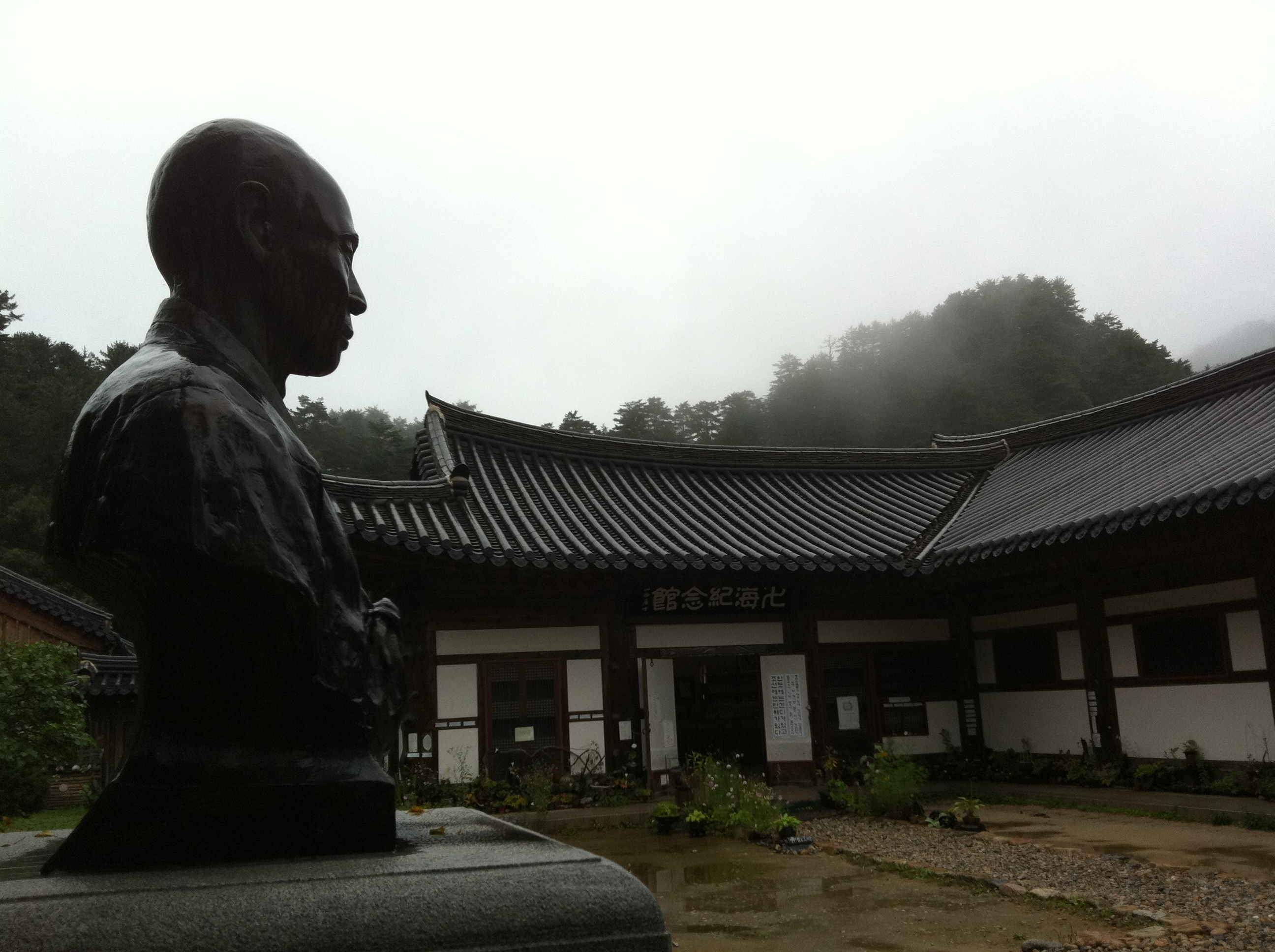 The Manhae Museum in Baekdamsa, Gangwon-do, Korea, a memorial house for Han Yong-un.